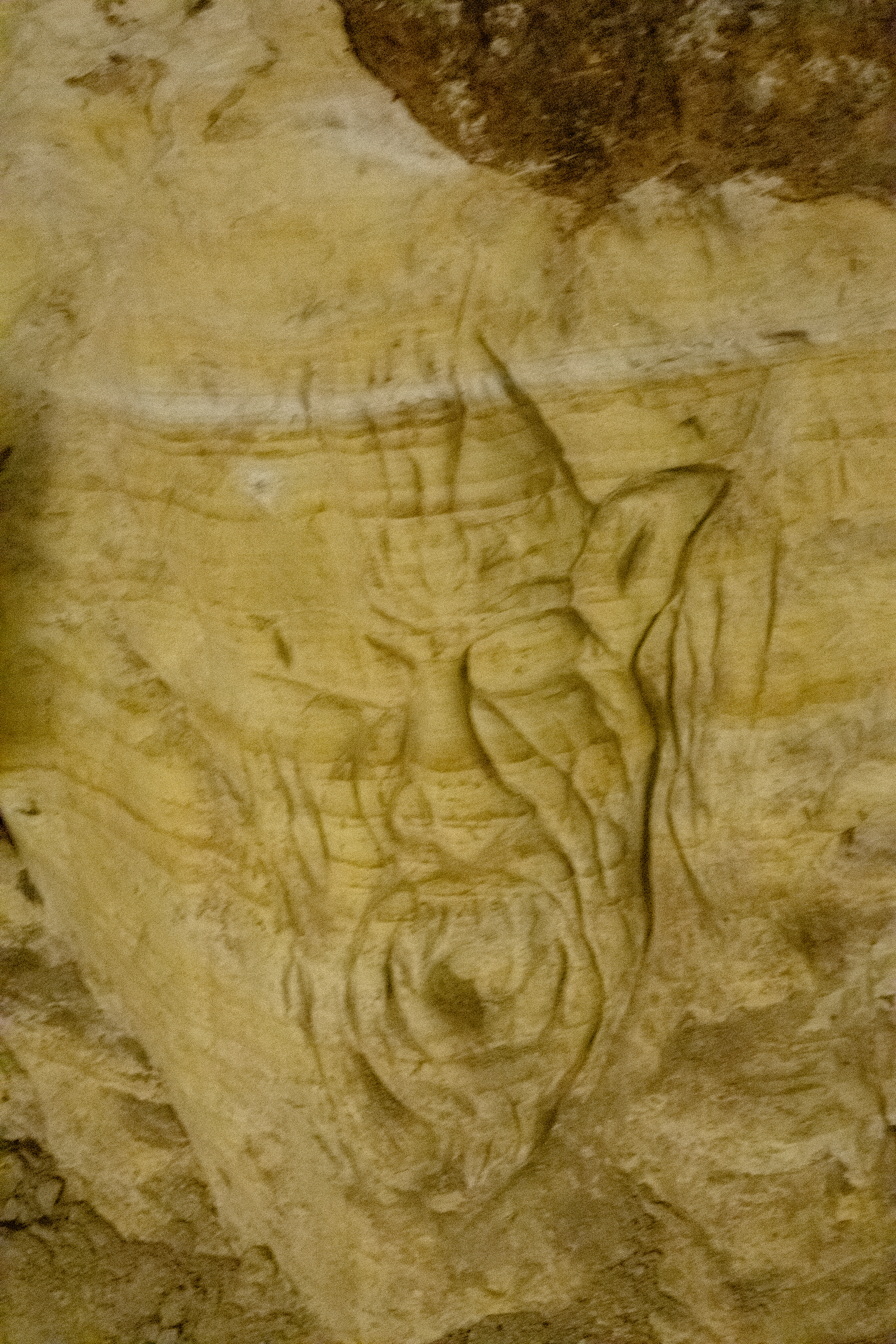 The Devil's Throat Cave, Bulgaria